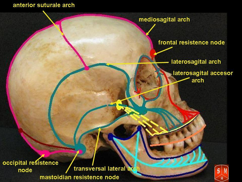 Functional architecture of cranium